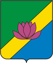 Coat of arms of Lesozavodsk, Primorsky kray, Russia. (2006)